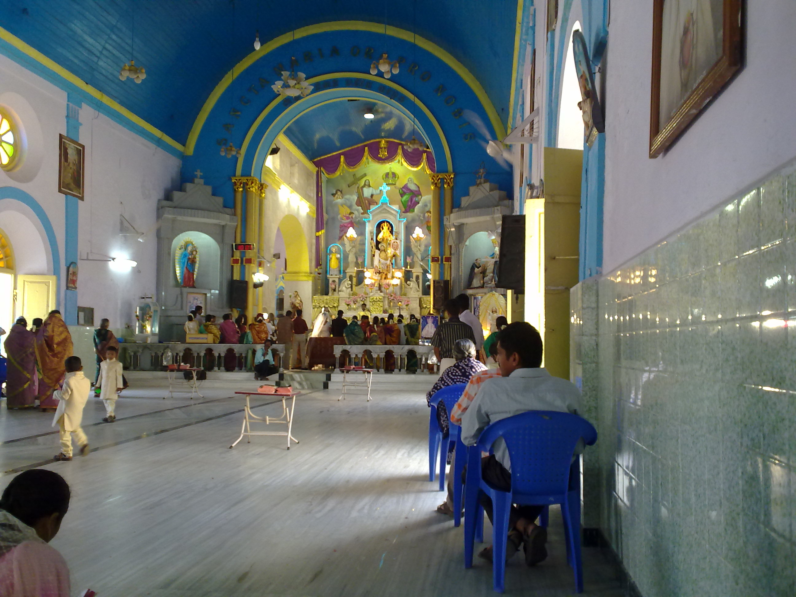 Panimaya matha (Snow white lady) Church inside View. Portuguese built this church in 1714. One of the ancient Church in Tuticorin.